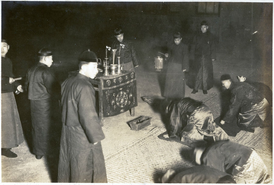 A Manchu businessman in Newchwang (now Yingkou) in Liaoning in the early Republican period, performing the Han Chinese ceremonies attending the eve of the Chinese New Year. After the ceremony for the Kitchen God, who spies on the household during the year for the Jade Emperor, he welcomes the God of Wealth Cai Shen to the courtyard of his home. After the ceremony, the doors of the compound are closed tightly to prevent the god's escape.